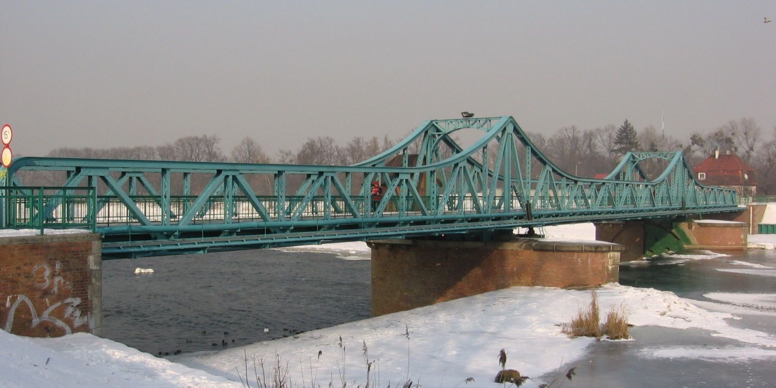 Most Bartoszowicki - Bartoszowicki Bridge, Wrocław, Poland, view from southern riverside of Odra